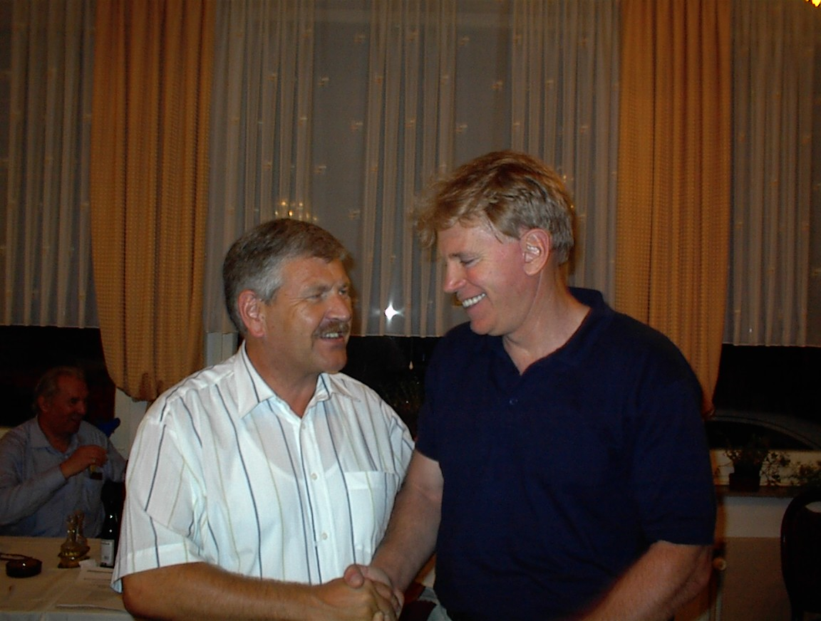 White nationalist leader David Duke (right), and the leader of the National Democratic Party of Germany (NPD), Udo Voigt (left), shaking hands in Saxony, Germany.